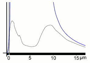 == Blackbody radiation in comparison to gas mantle based on CeO2/ThO2. Source of data: R.W. Pohl: Optik und Atomphysik Own drawing. No claim for rights. Visible range added, now more explicit